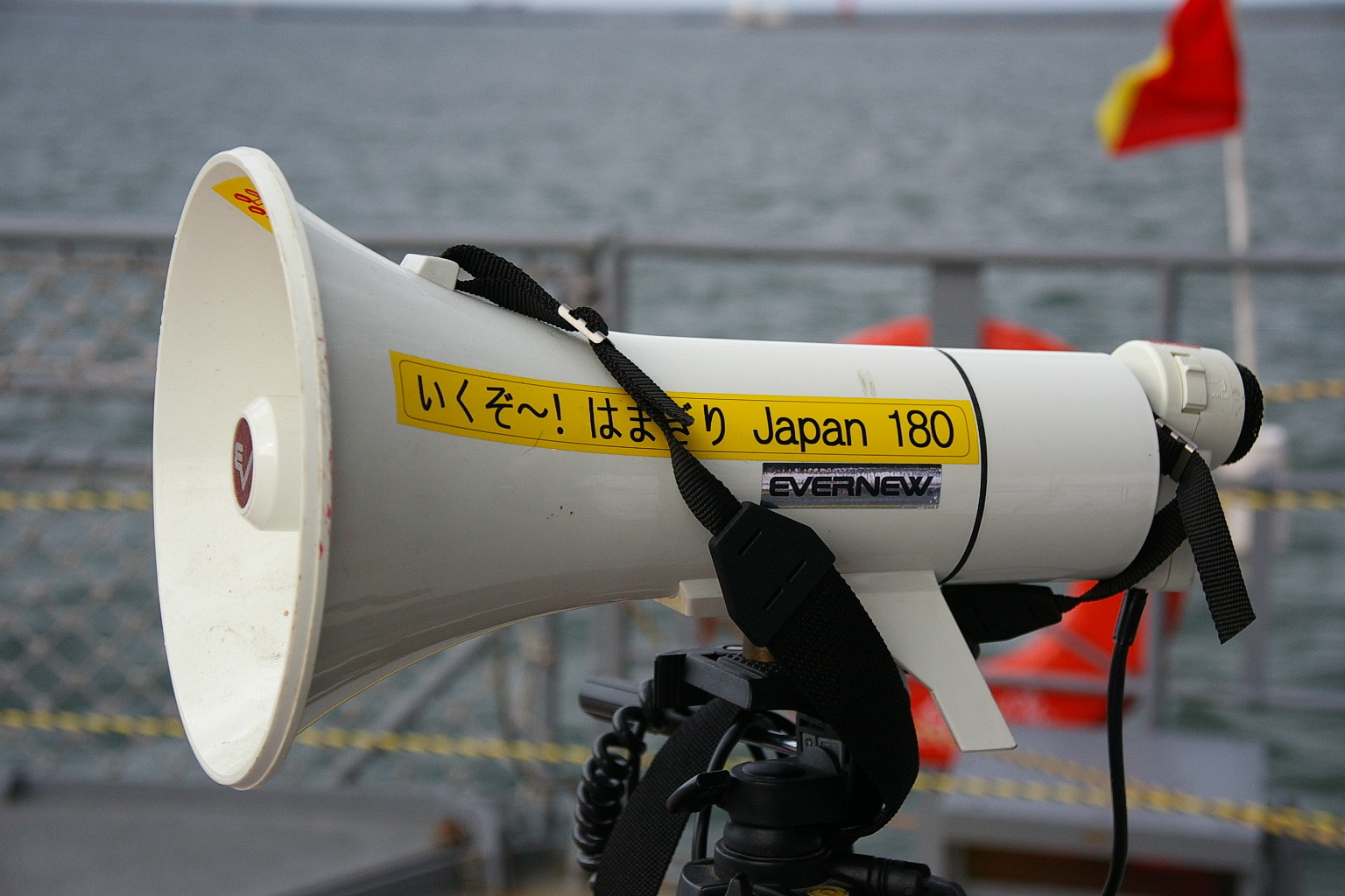 JMSDF megahone with hand microphone, DD-155 Hamagiri.